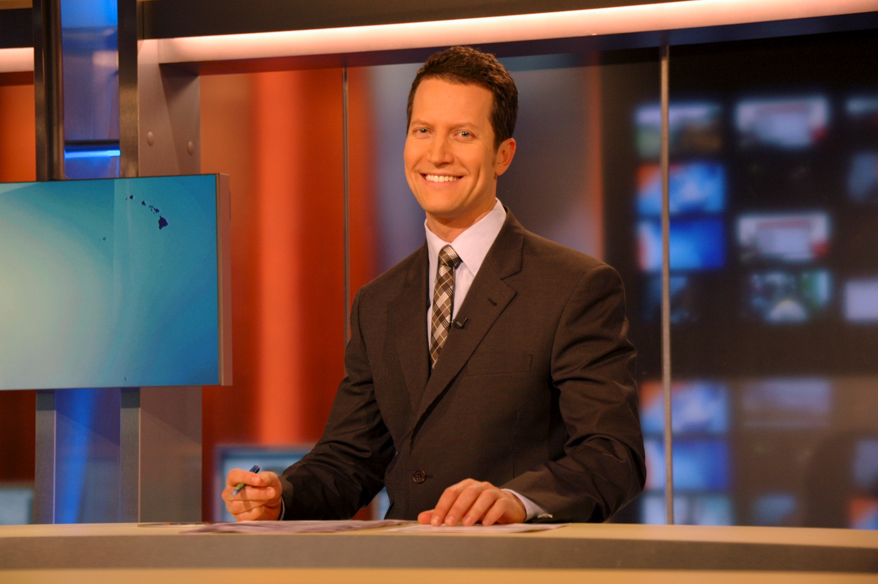 Ben Fajzullin in the studio during a break. Shot taken 24 October 2010 at Deutsche Welle TV Studio in Berlin.